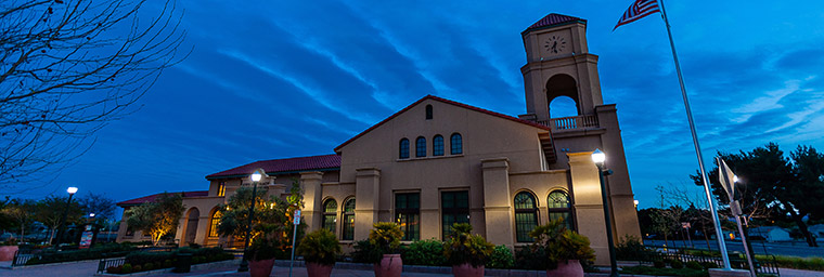 Tracy Transit Station